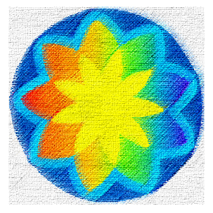 9-pointed star, Baha'i symbol